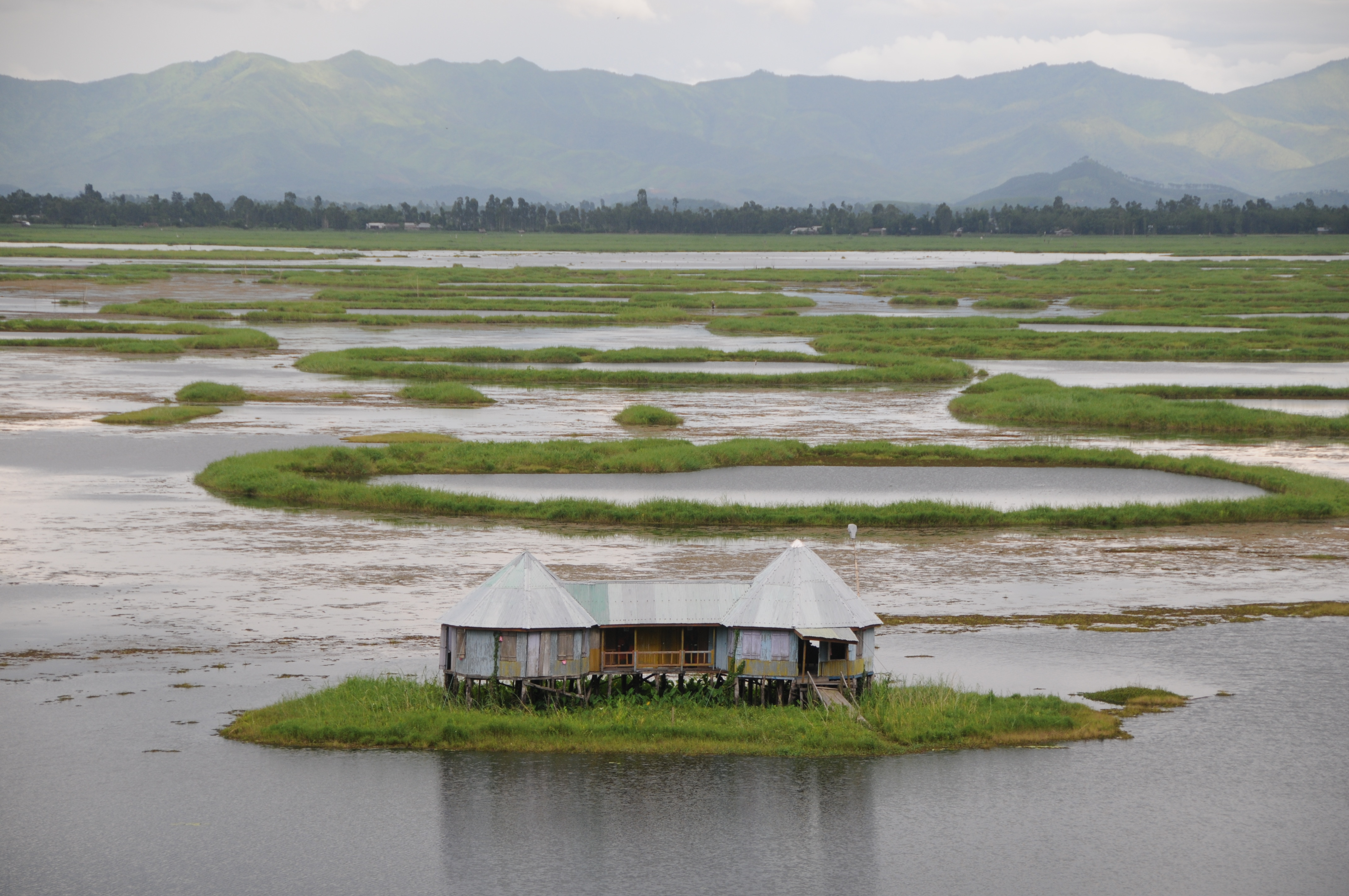 Lakes and mountains of Manipur